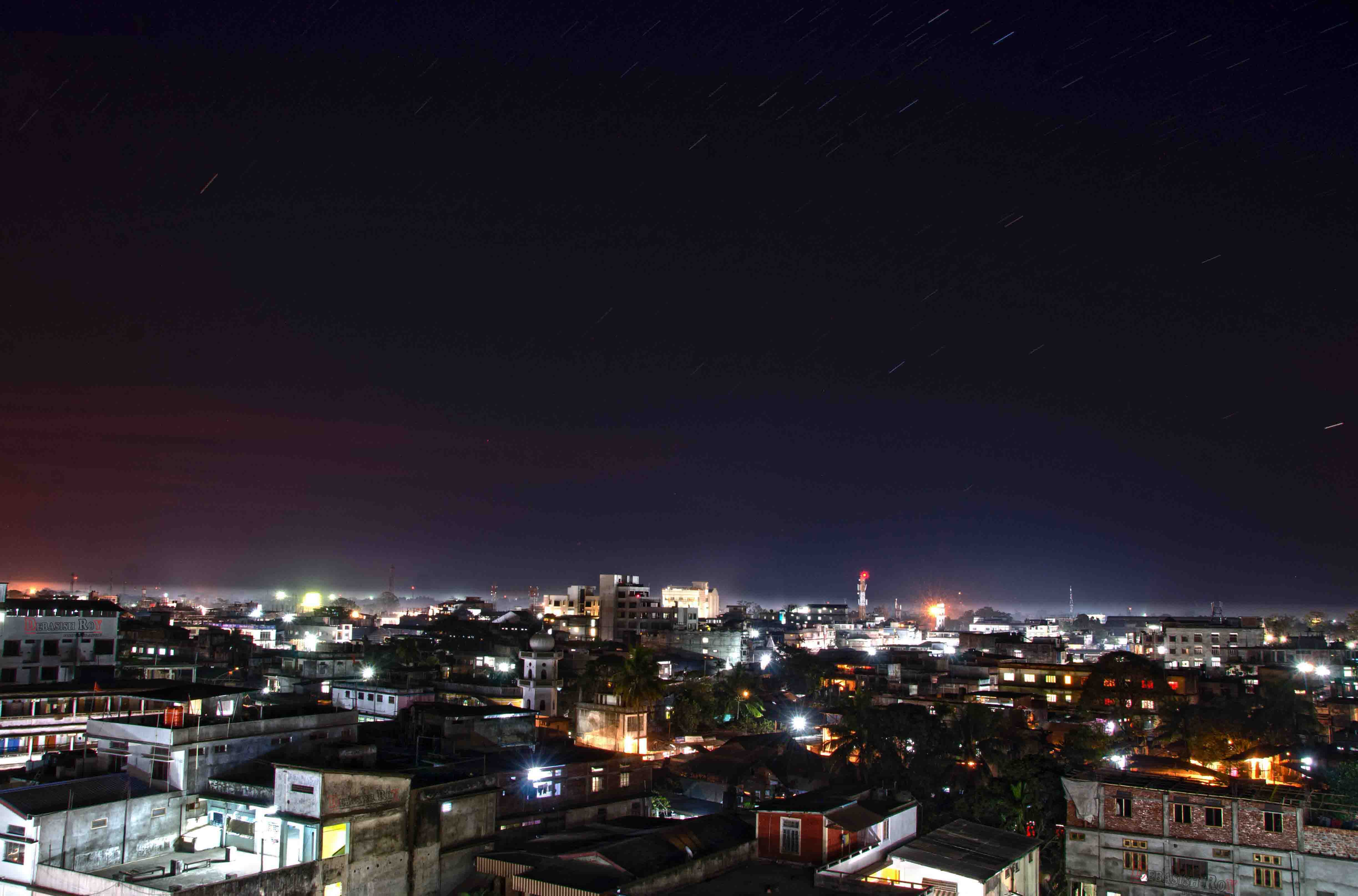 My home town Dibrugarh